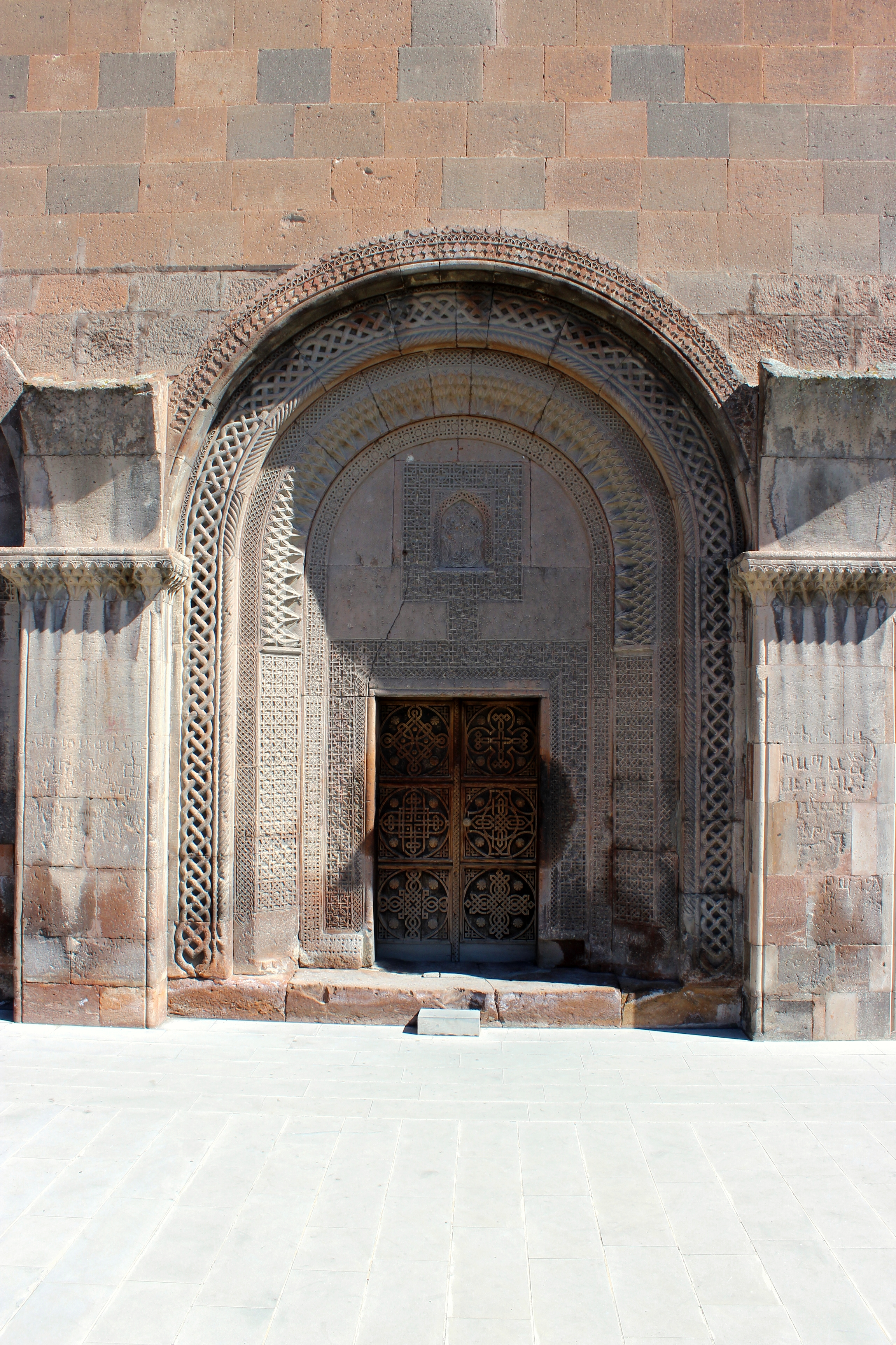 Western portal to S. Hakob Church in Kanaker, Armenia